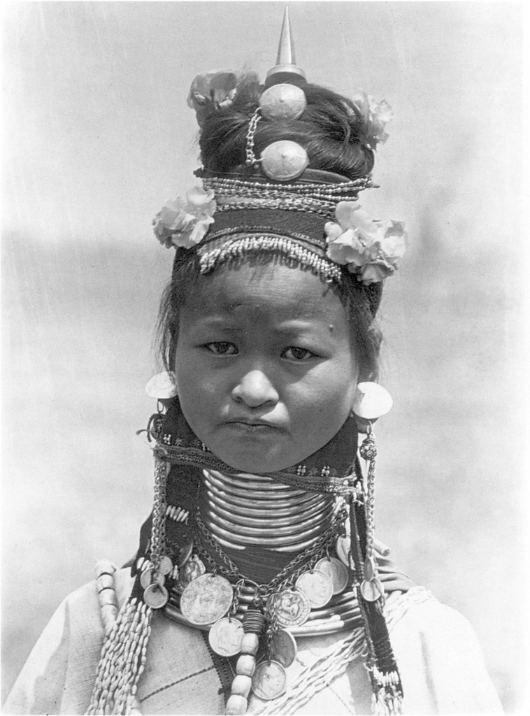 Padaung girl, taken in Shan State ca. 1930